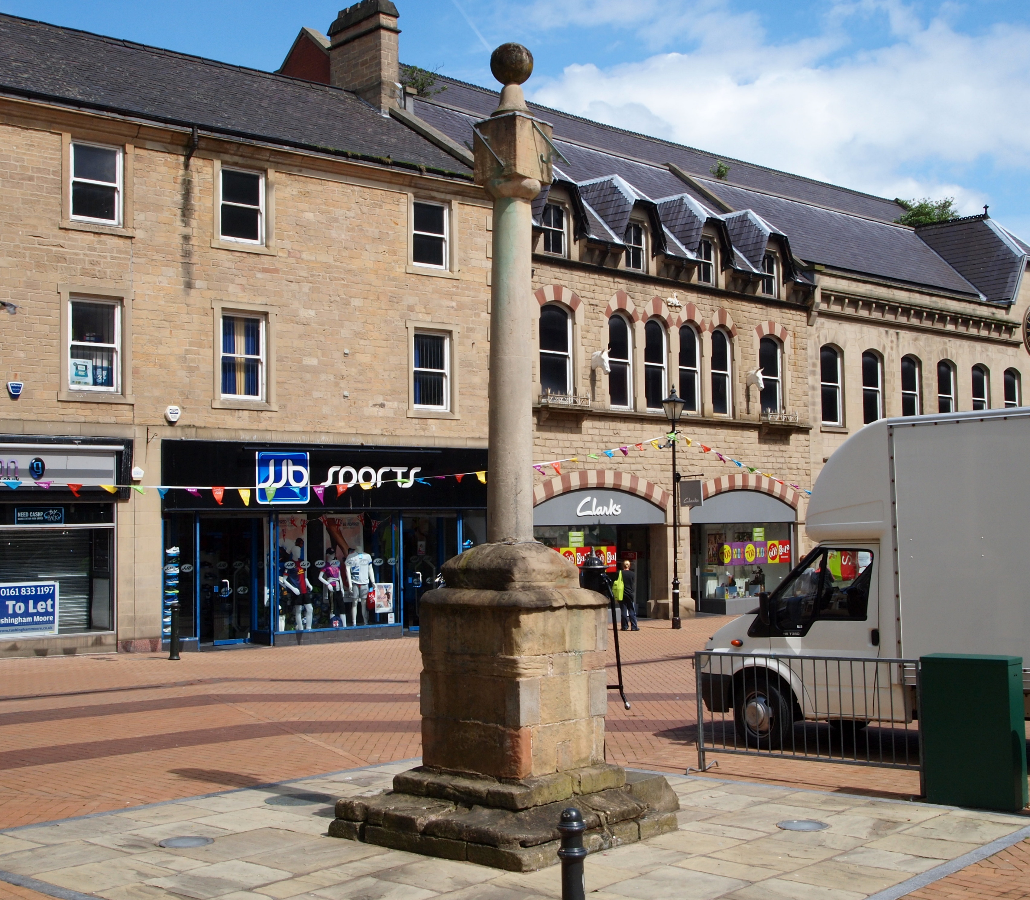 The Buttercross on Westgate in the smaller of Mansfield's two market areas. Behind the van is the entrance to the renovated library complex (re-opened in January 2012 after temporary closure for refurbishment). Buttercrosses (a.k.a. butter crosses) are medieval monuments occasionally seen in ancient market towns. They provided a central point in the market place where dairy products were sold, the fresh produce frequently being displayed on the circular, stepped bases of the cross.